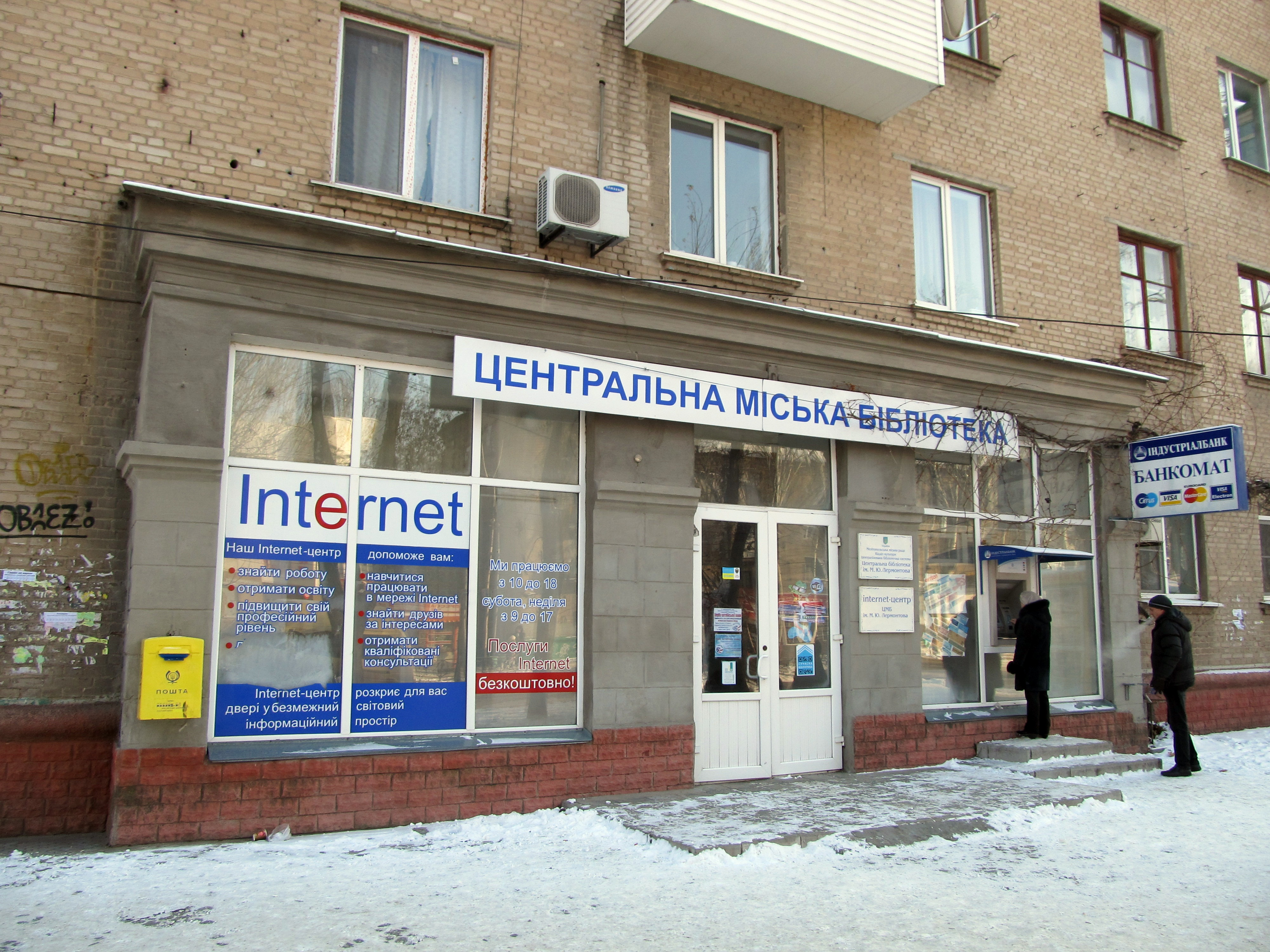 Lermontov Central Municipal Library (Melitopol, Zaporizhia Oblast, Ukraine).